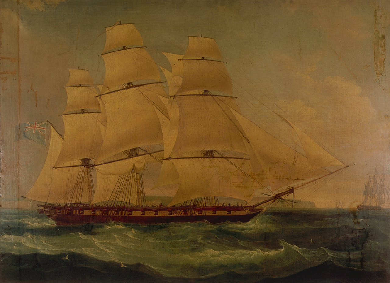 A portrait of the East Indiaman ‘Providence', shown in full sail broadside-on. The white cliffs of the English coast are visible in the distance and she is accompanied by other vessels. The ‘Providence’ was constructed in 1807 but did not enter the service of the East India Company until March 1816. The vessel undertook a single voyage to St Helena and China, under the command of Captain Andrew Timbrell Mason, returning to England in August 1817.